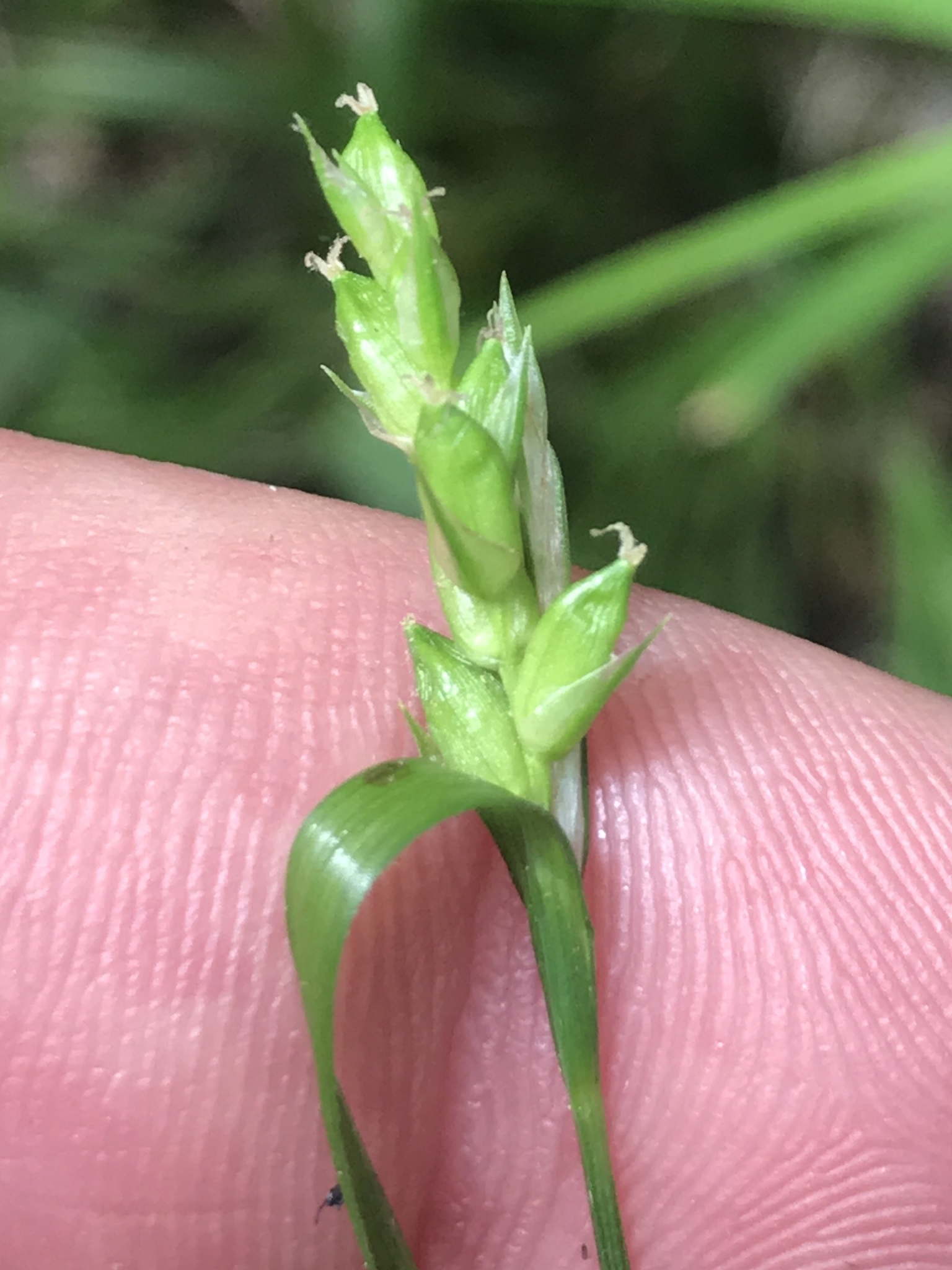 Photo of Carex amphibola uploaded from iNaturalist.